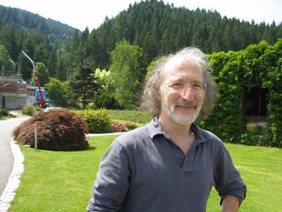 Dan Segal, British mathematician, at Oberwolfach in June 2008.